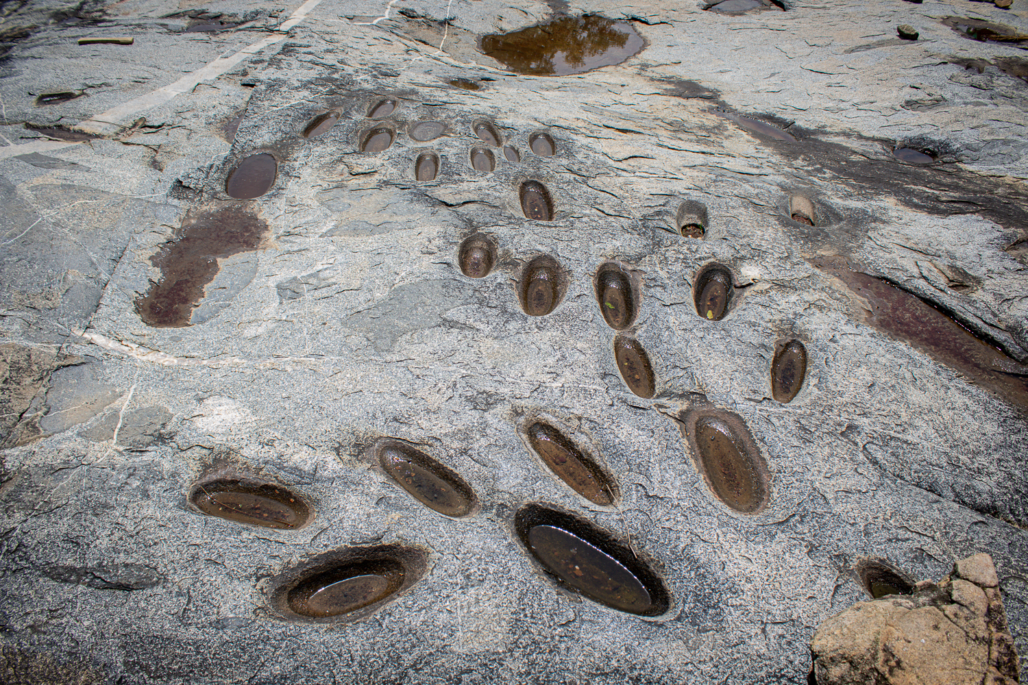 These were the bowls which food was served in for slaves at Pikworo Slave Camp in Upper East region of Ghana